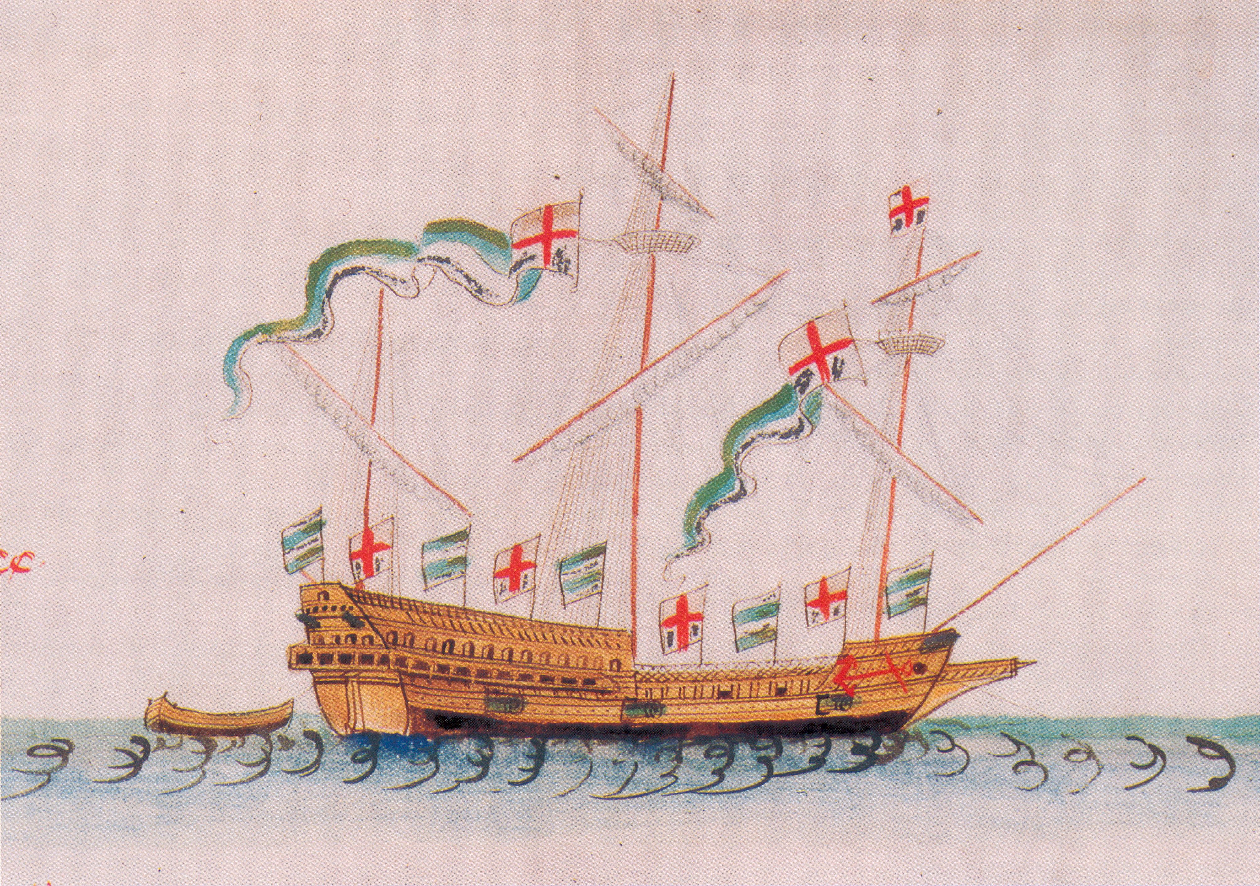 Illustration of the galleass Greyhound. Notification about possible deletion Cathsuth (talk) 16:18, 9 February 2017 (UTC)